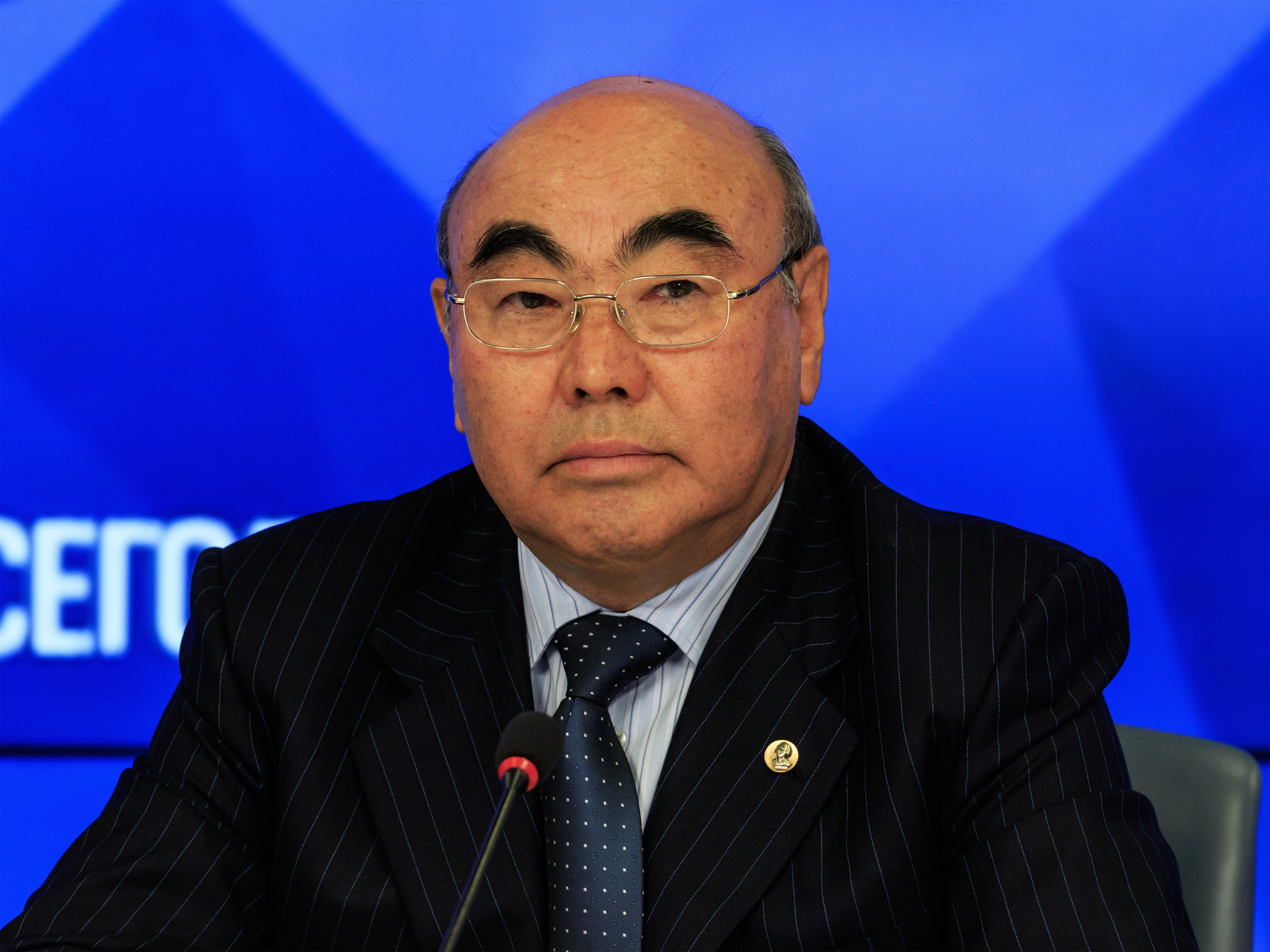 Askar Akayev (b. 1944) is a physicist, and former President of Kyrgyzstan